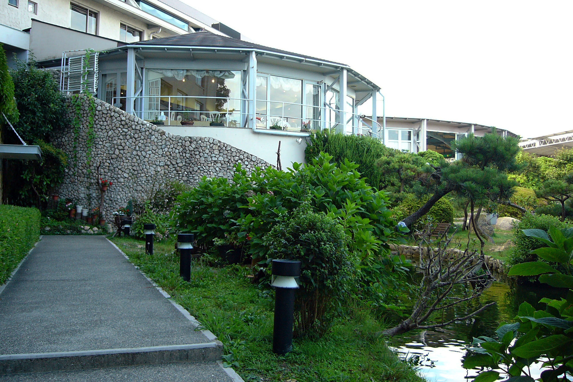 Rokko Oriental Hotel in Kobe, Hyogo prefecture, Japan